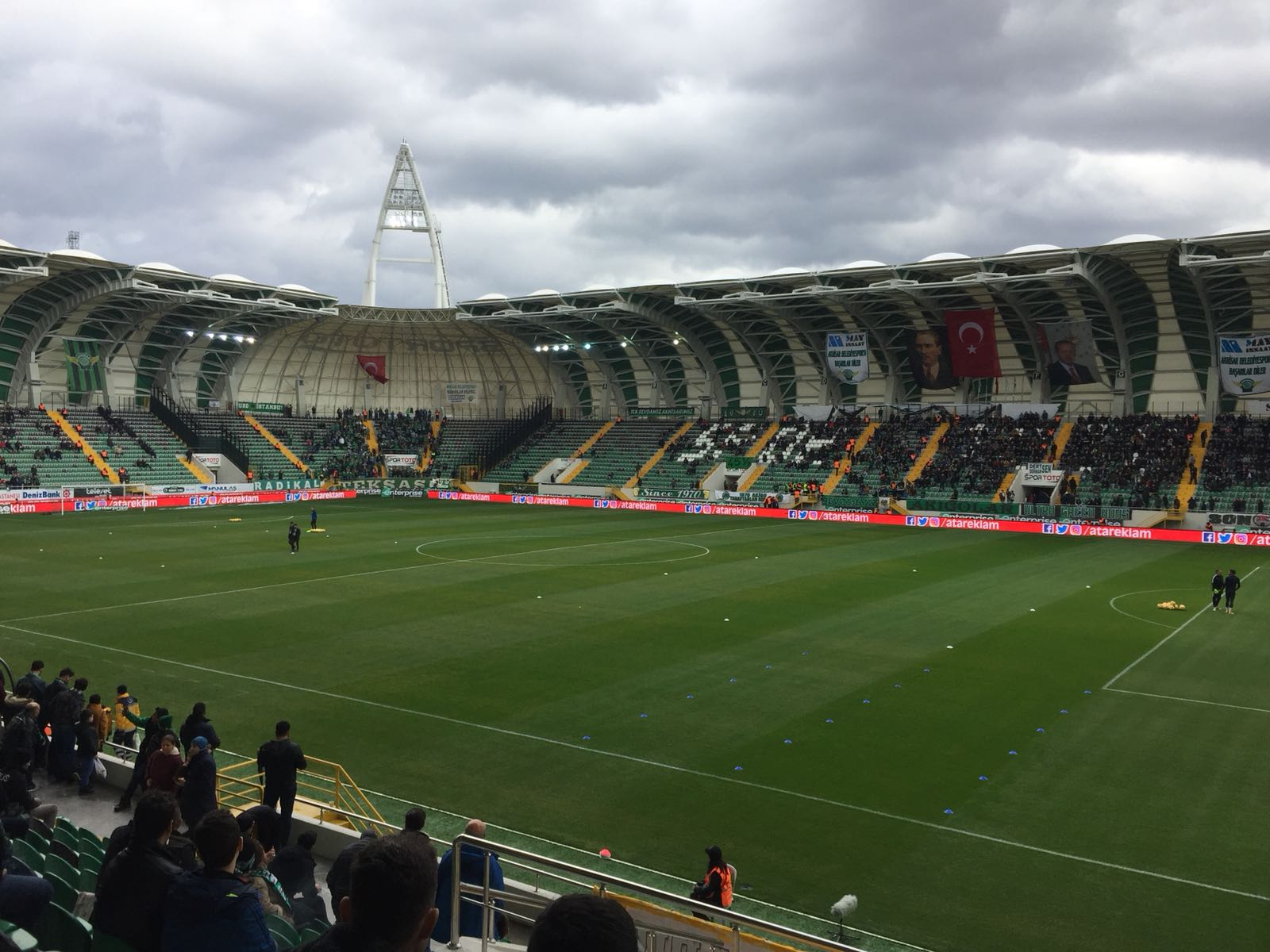 Akhisar Belediyespor vs Bursaspor, 11 February 2018